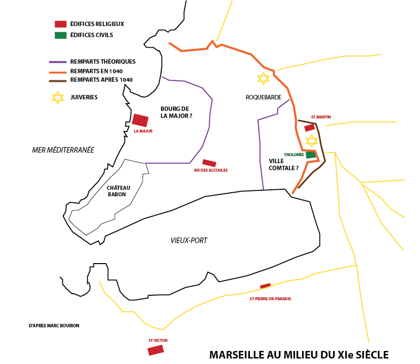 Marseille au milieu du XIe siècle